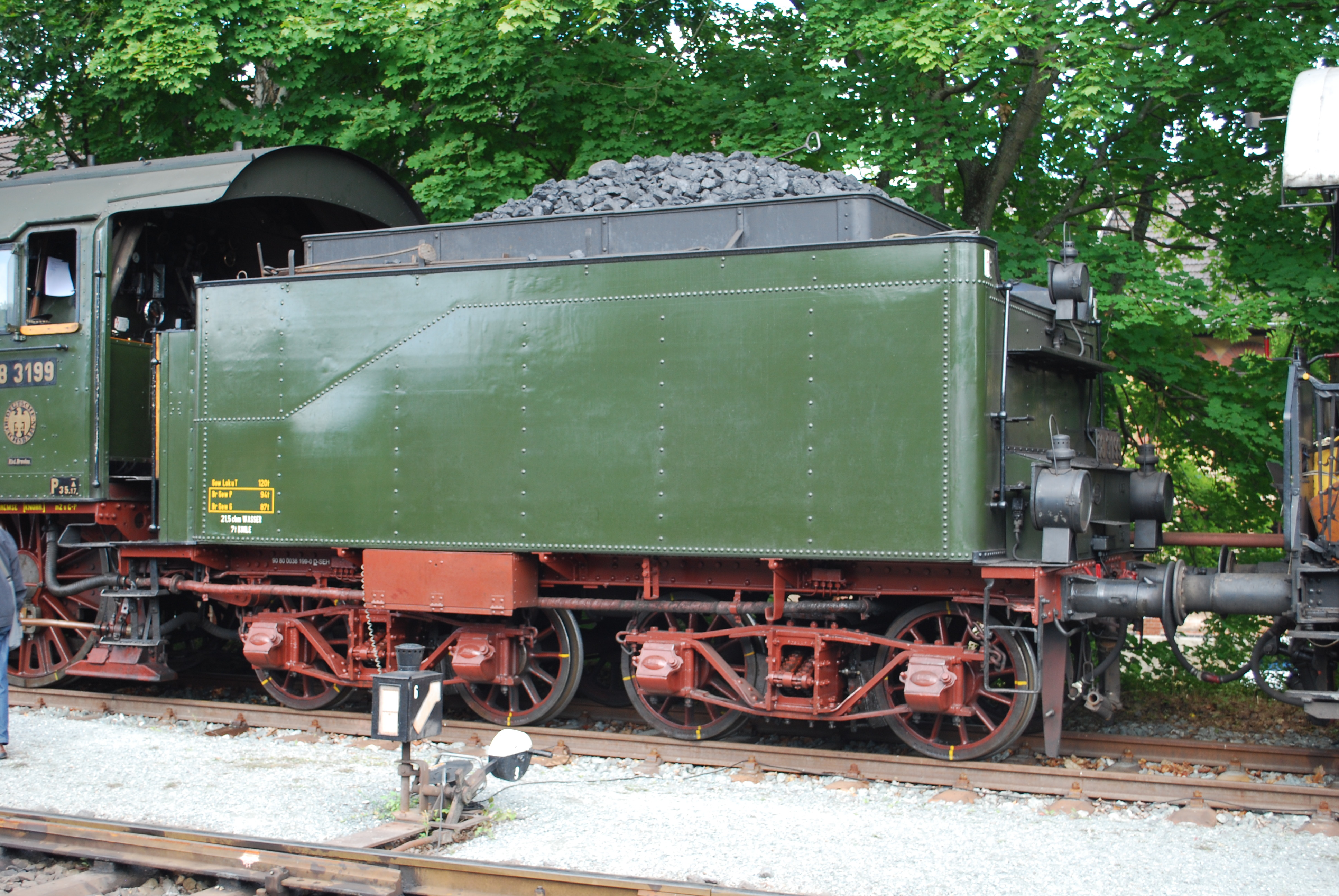 KPEV 2'2'T31.5 tender (6,000 gll water, 7 tons coal) at the Meiningen Steam Festival, 09/12.